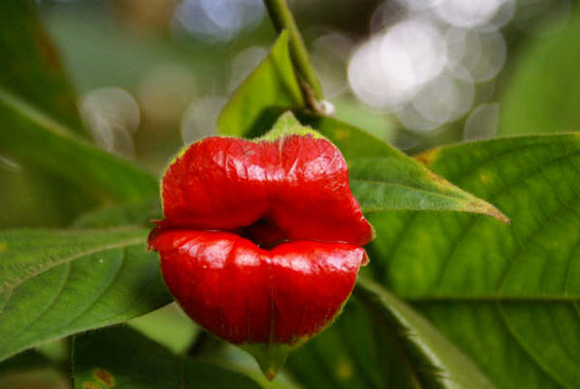 Hooker's Lips